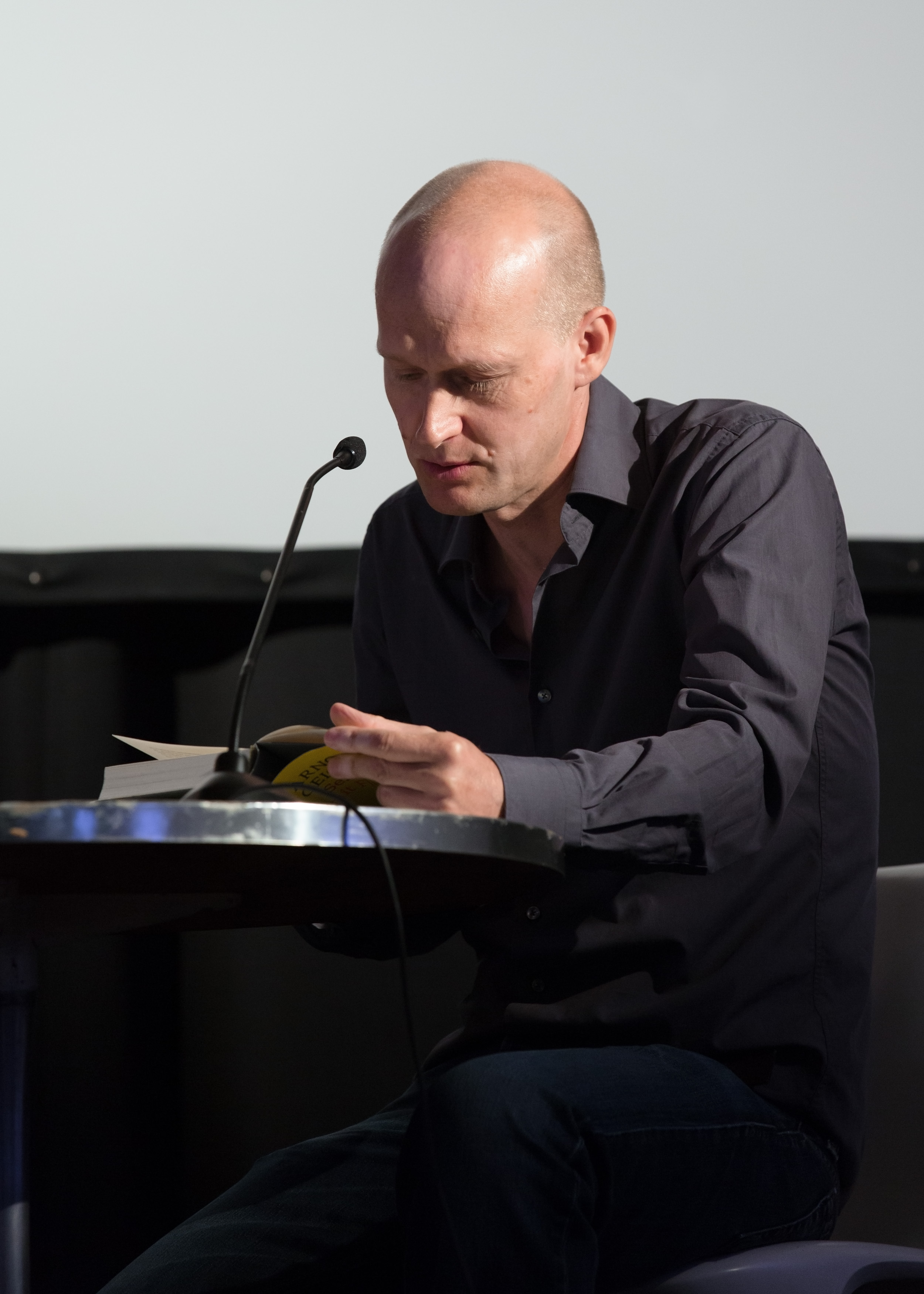 Arno Geiger reading at the opening evening the literary festival o-töne 2015 at Museumsquartier in Vienna, Austria.